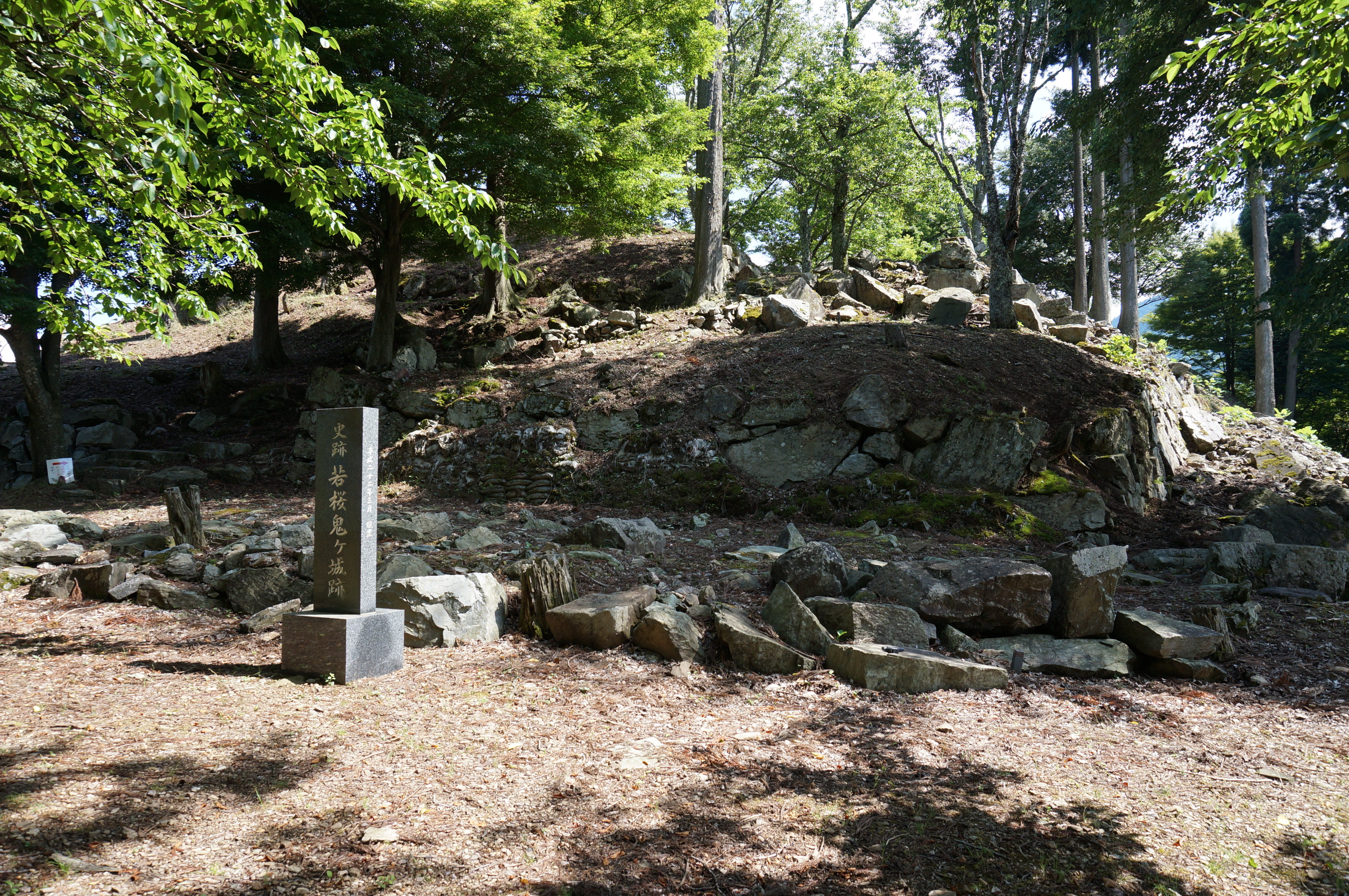 Hon-maru stone wall, Wakasa Oniga-jō